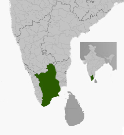 This file was created by me,the userSouthernstar and I have no issues in providing this content to Wikipedia. Thanks --Southernstar 15:28, 29 January 2007 (UTC)